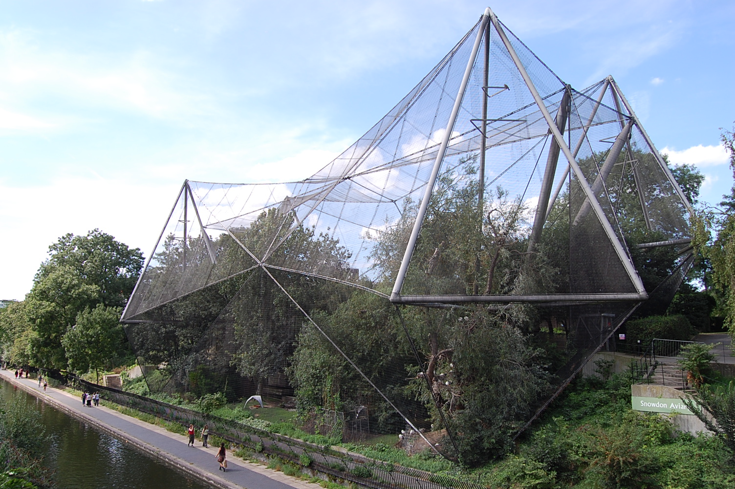 Snowdon Aviary at London Zoo, England. Designed by Cedric Price and Frank Newby.